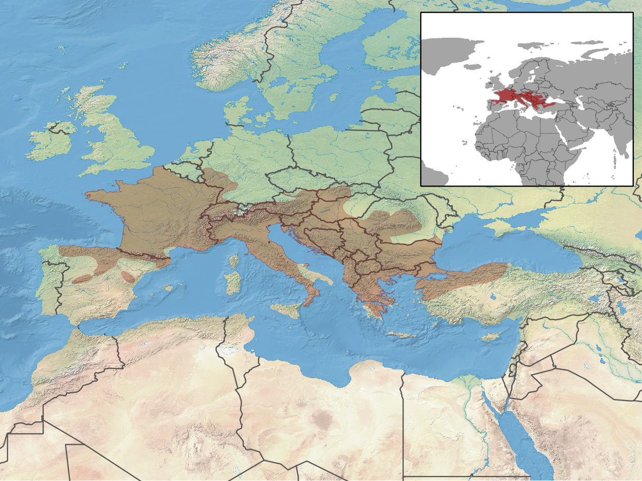 geographic distribution of Podarcis muralis